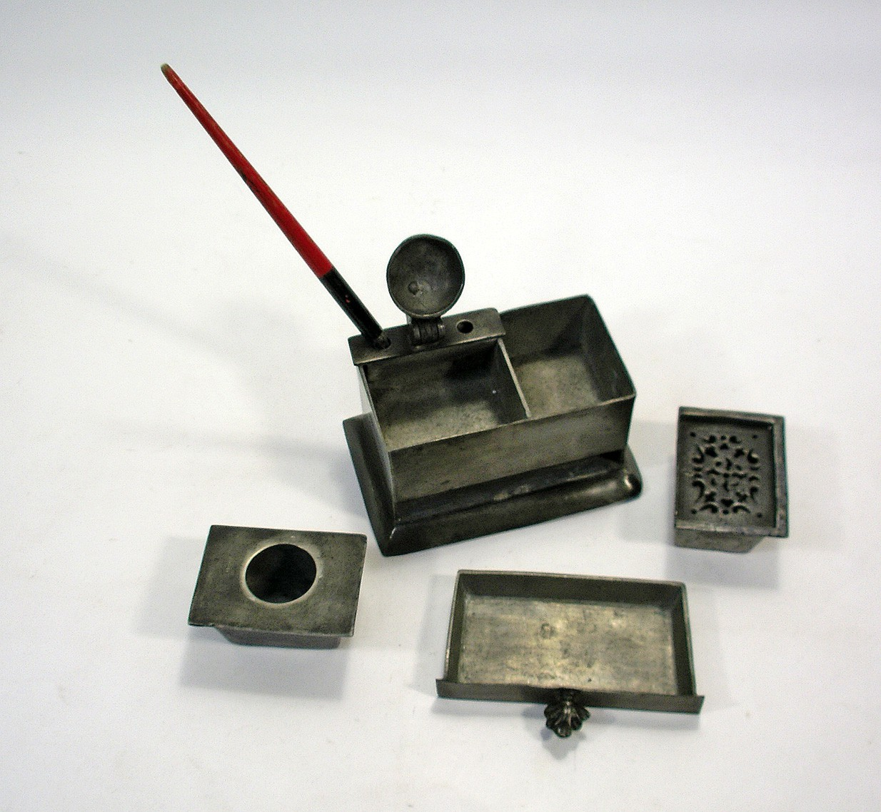 A open tin ink set (so-called 'Raadsheertje'), containing an ink pot, a sand spreader and a pencil. Marked with the Amsterdam city coat of arms and the initials of the tin maker M.B. (see: B. Dubbe, Dutch tin setters and tin marks, p.126, no. Height 11 cm, width 13 cm. Dating mid 18th century.